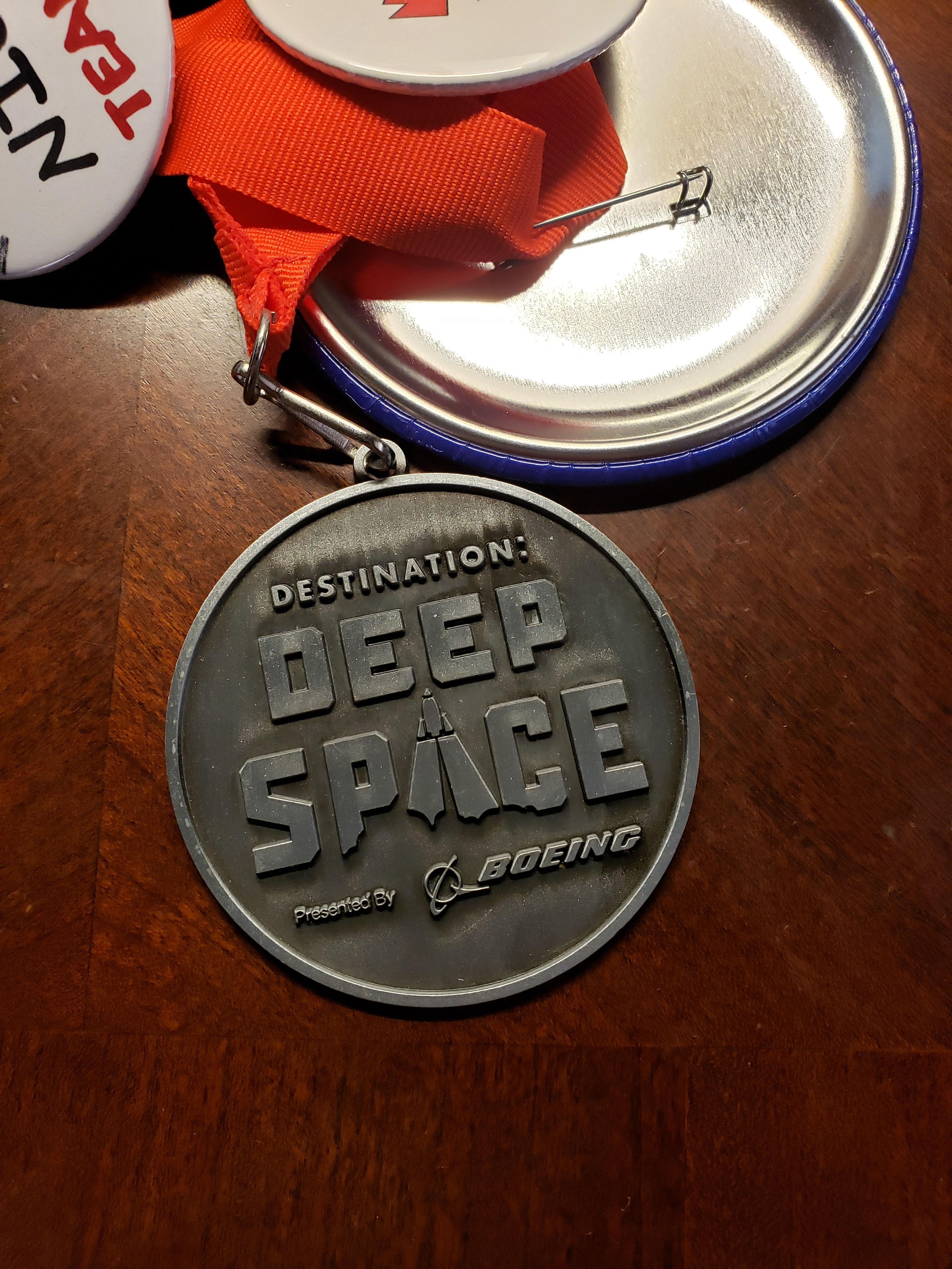 A medal awarded to members of teams that made it to the semifinals in the FIRST Robotics Competition Destination: Deep Space.